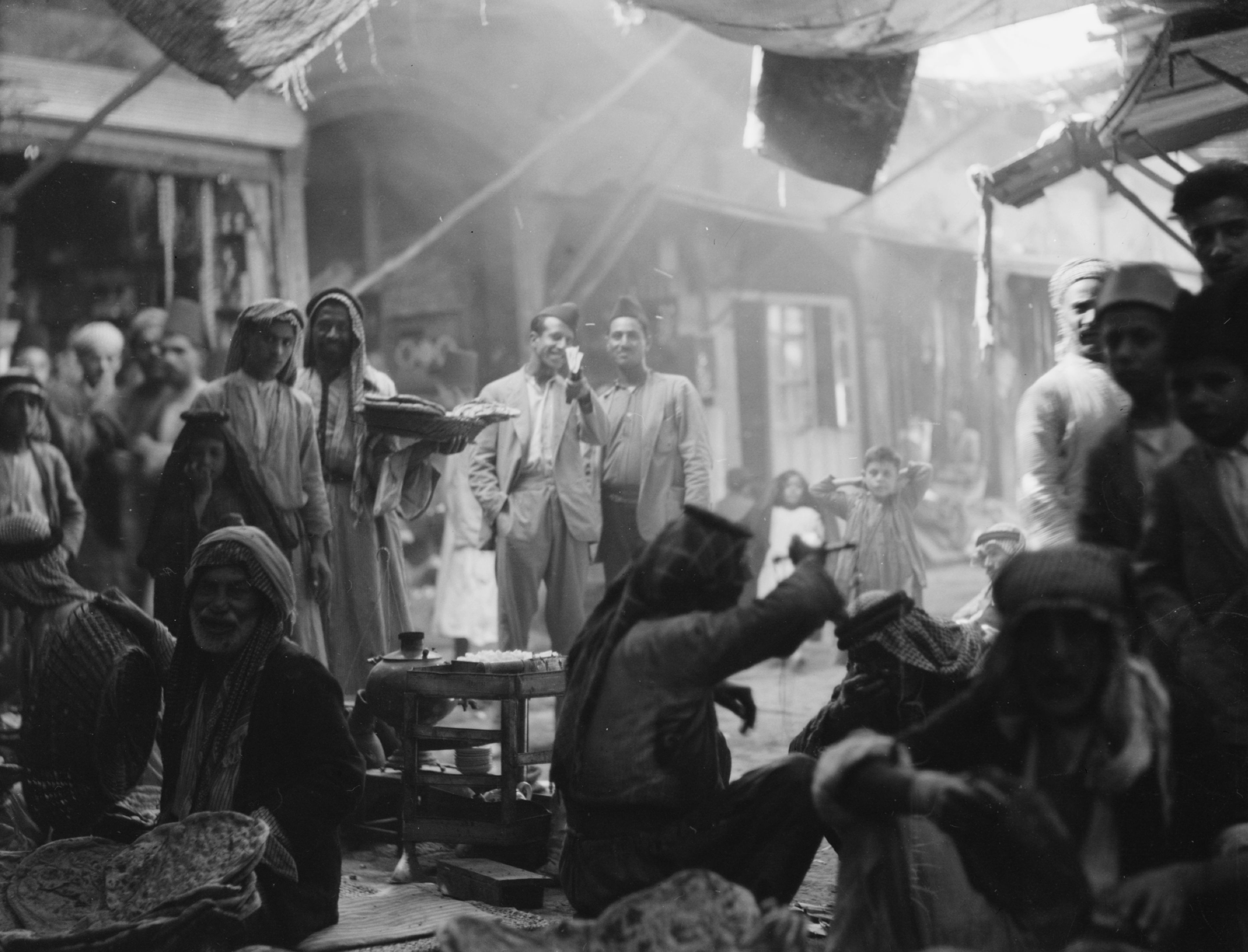 Iraqi market (Souk) in Mosul city, northern Iraq, 1932